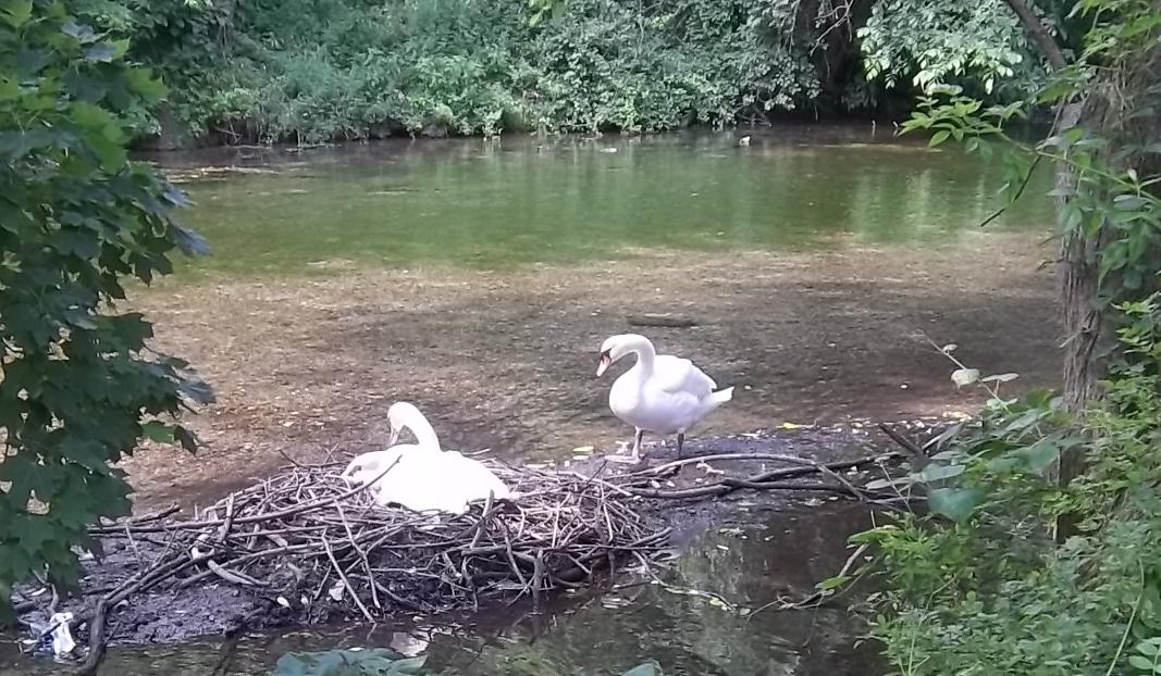 Nesting swans, a few meters downstream from large spring, The Bubble